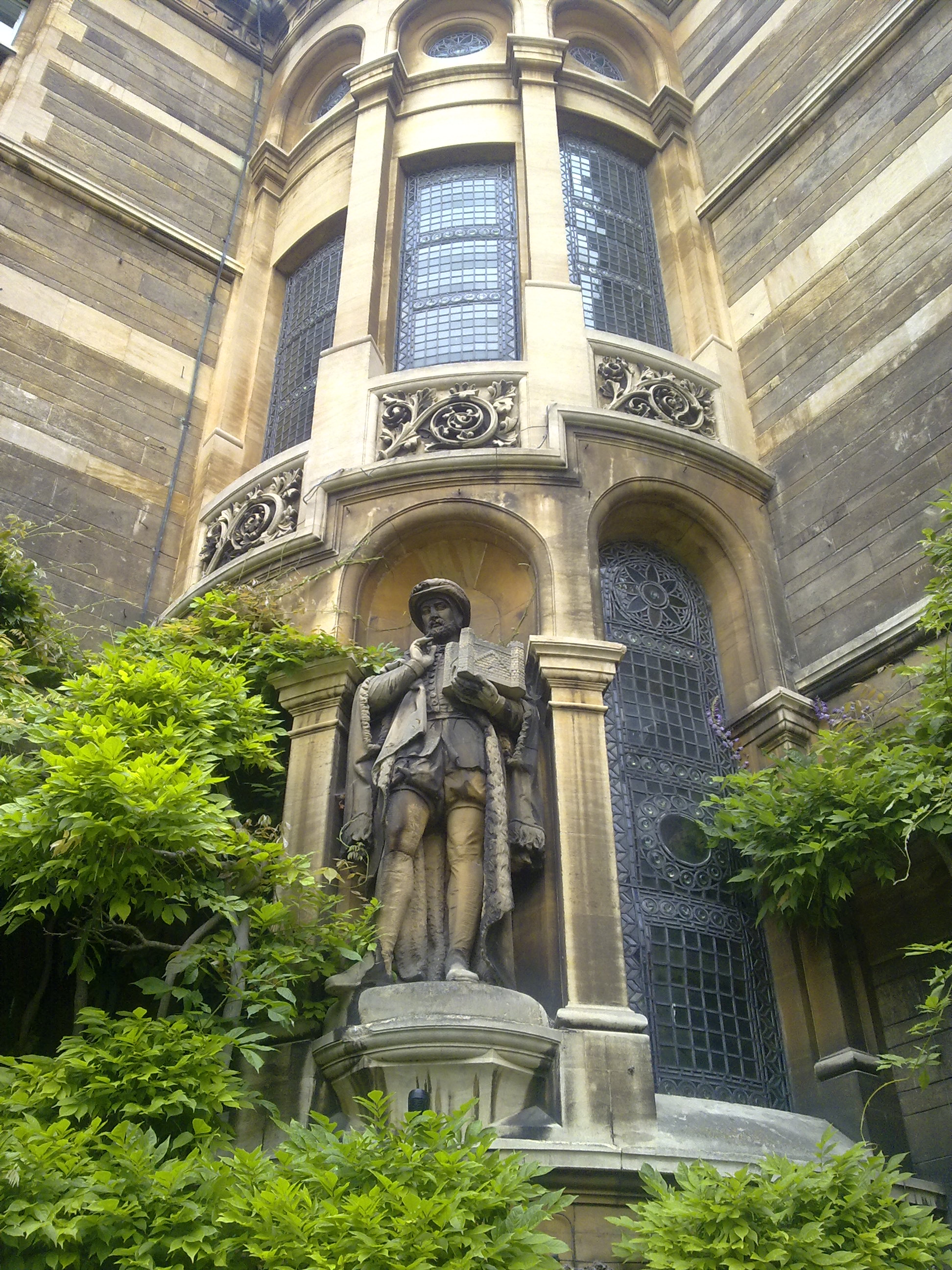 Exterior sculpture on the north east corner of the Waterhouse Building, Gonville and Caius College, Cambridge.